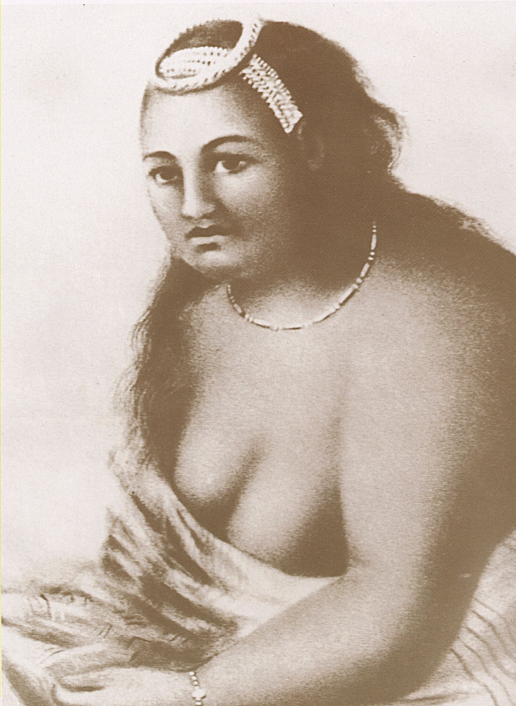 Retouched image of Queen Kaahumanu, done by J. J. Williams after Louis Choris' 1816 portrait of the Queen.